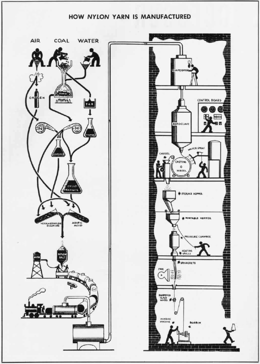 A description by the U.S. Navy "How Nylon Yarn is manufactured", from 1943. It was printed in an article about parachutes.